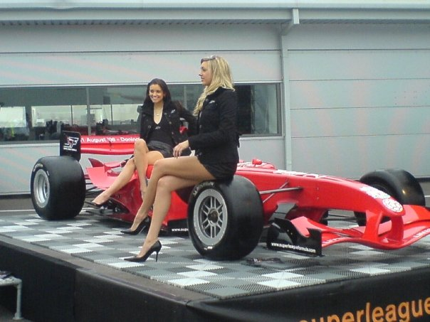 Liverpool_FC SF car